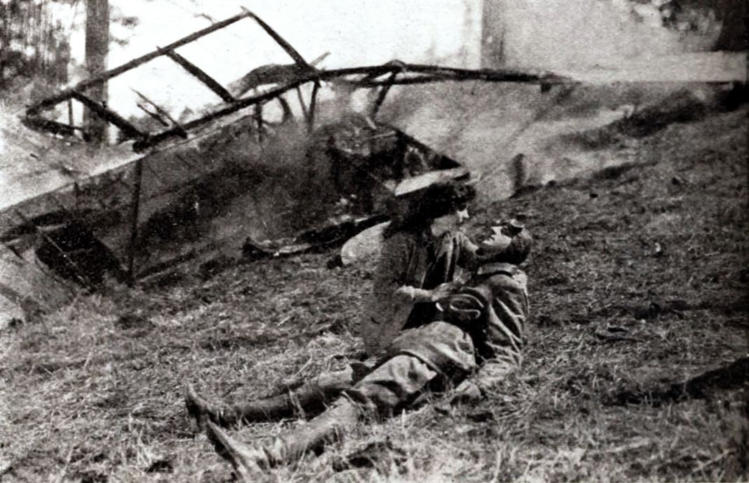 Still from the American comedy drama film Woman, Wake Up (1922) with Florence Vidor and Louis Calhern, on page 42 of the February 25, 1922 Exhibitors Herald.